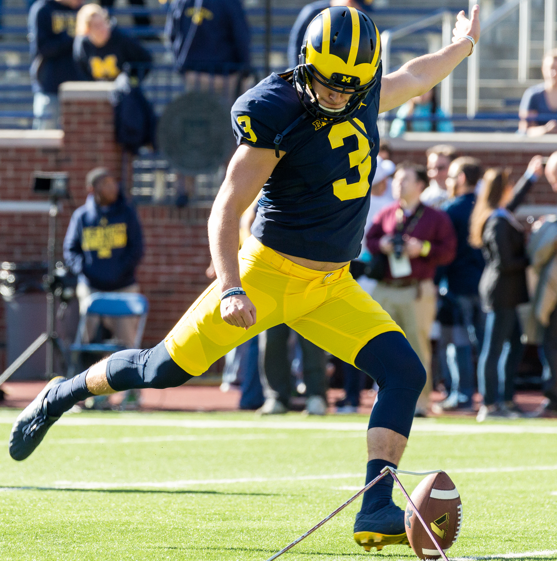 PAB_FB_Maryland2016_47